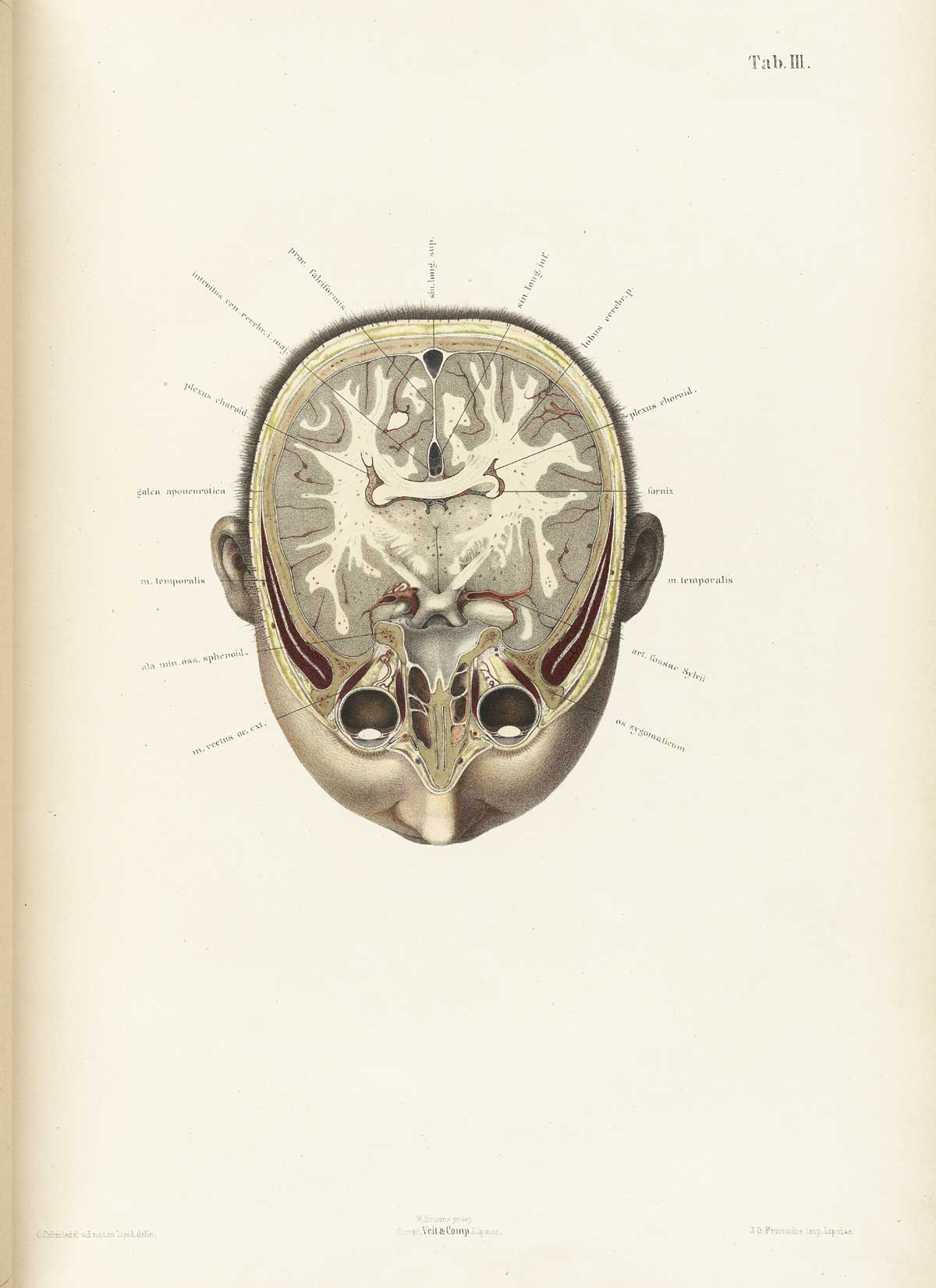 56x39 cm plate from Braune's "Topographisch-anatomischer Atlas" (1867-1872), drawing and lithography by C. Schmiedel, colorings by F. A. Hauptvogel